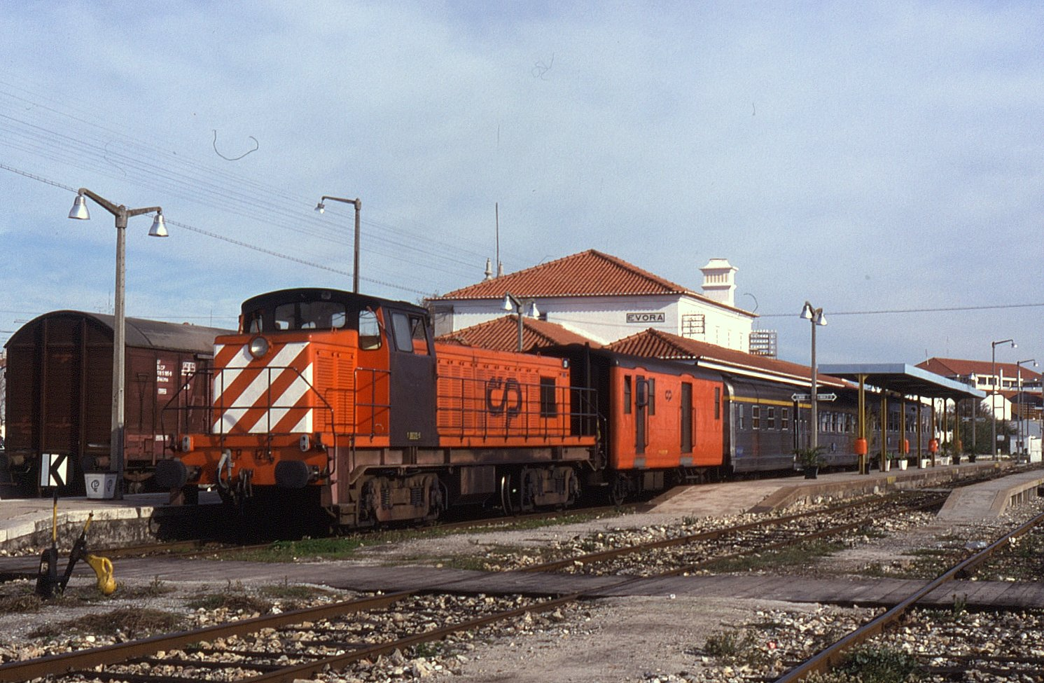 Class 1200 no. 1211 is seen at Évora on 11 November 1993 having arrived on train IR891.